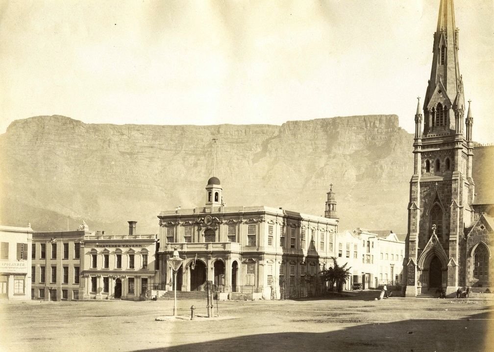 An old photograph of Greenmarket Square in Cape Town. 1870s. Cape Colony.